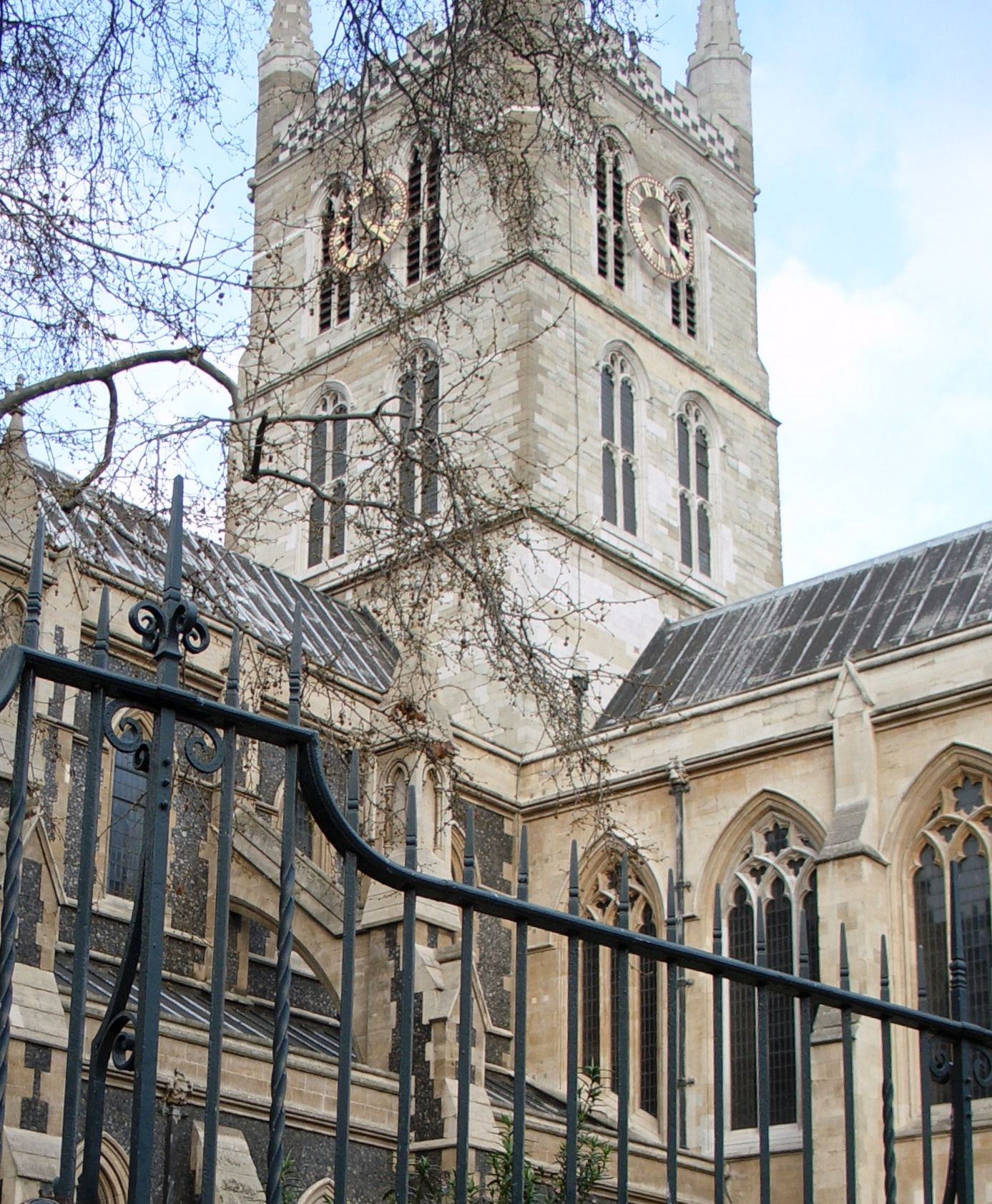 Londres - catedral de Southwark